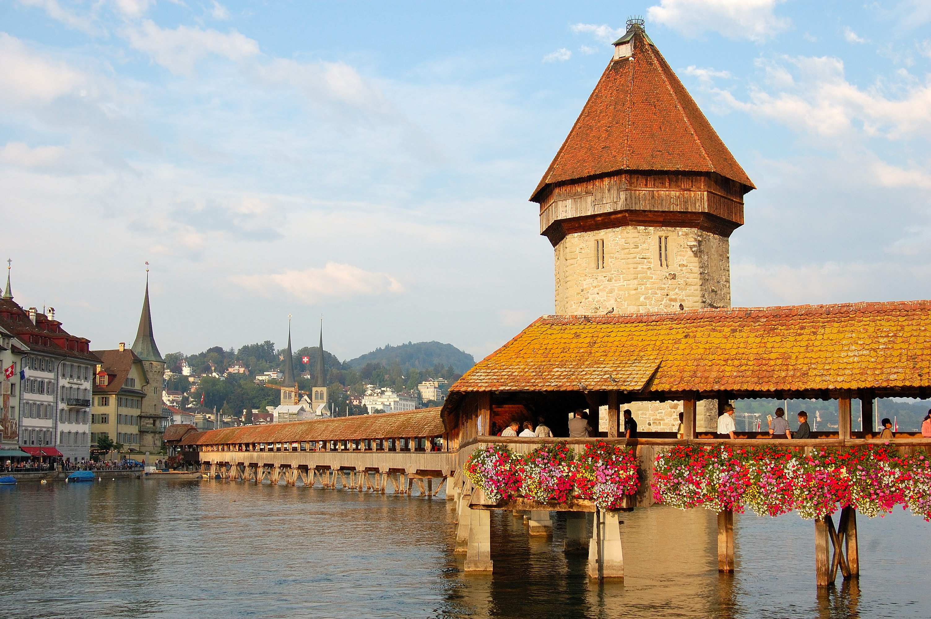 Kapellbrücke and Watertower of Lucerne/Switzerland in the setting sun in September 2006. The oldest wooden covered bridge in Europe